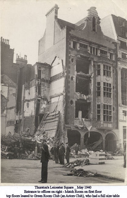 Bombed house in May 1940 (Streetview)